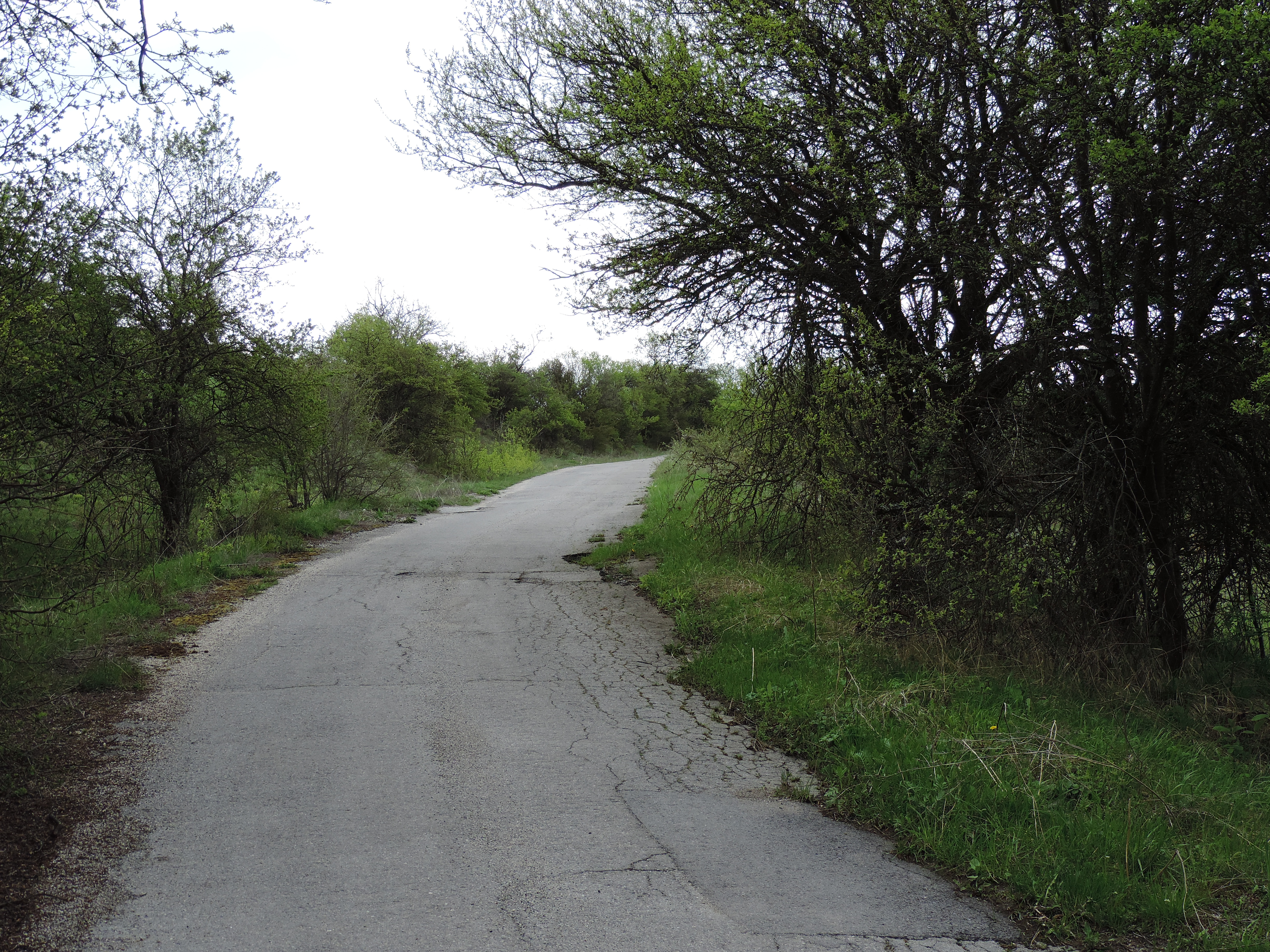 Road 813, Dragoman-Tran, Bulgaria.